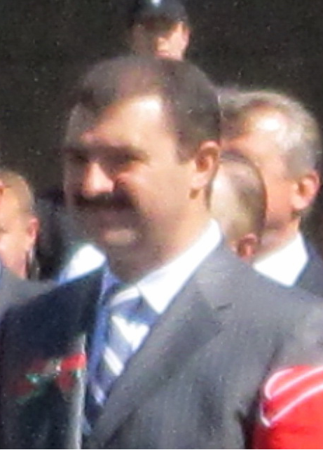 Viktor Lukashenko is a Belarusian politician and the elder son of the country's president Alexander Lukashenko.